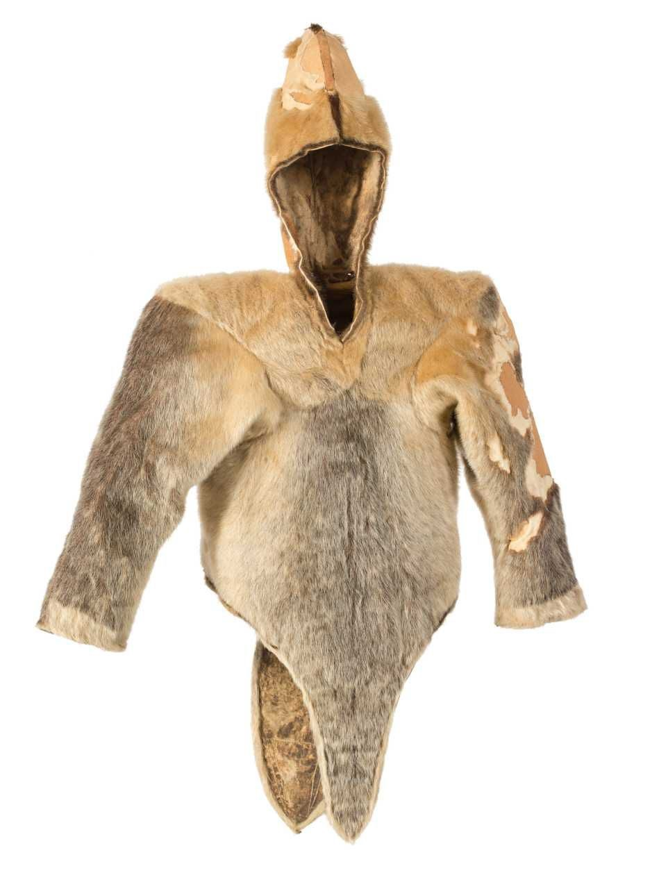 Kalaallit women's sealskin parka, discovered at the Qilakitsoq archaeological site in 1972 and carbon-dated to c. 1475. Full description for the item is found here